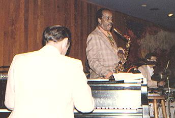 Jazz saxophonist Buddy Tate with pianist Bubba Kolb at the Village Jazz Lounge in Walt Disney World